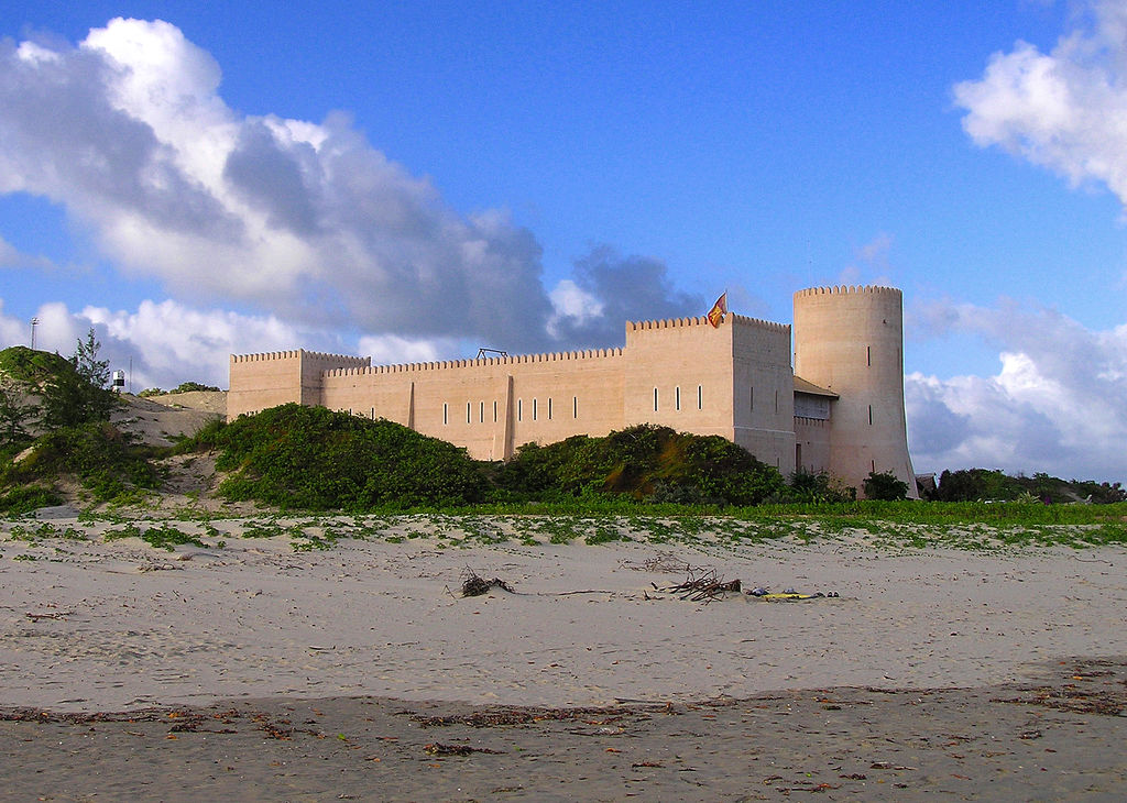 Lamu "fort" at Shela beach, a vacation rental property